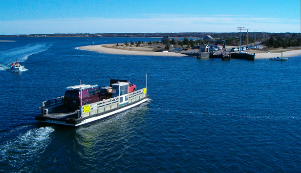 In the foreground is the On Time Ferry or Chappy Ferry, which shuttles three cars at a time to Chappaquiddick Island (background) on Martha's Vineyard.